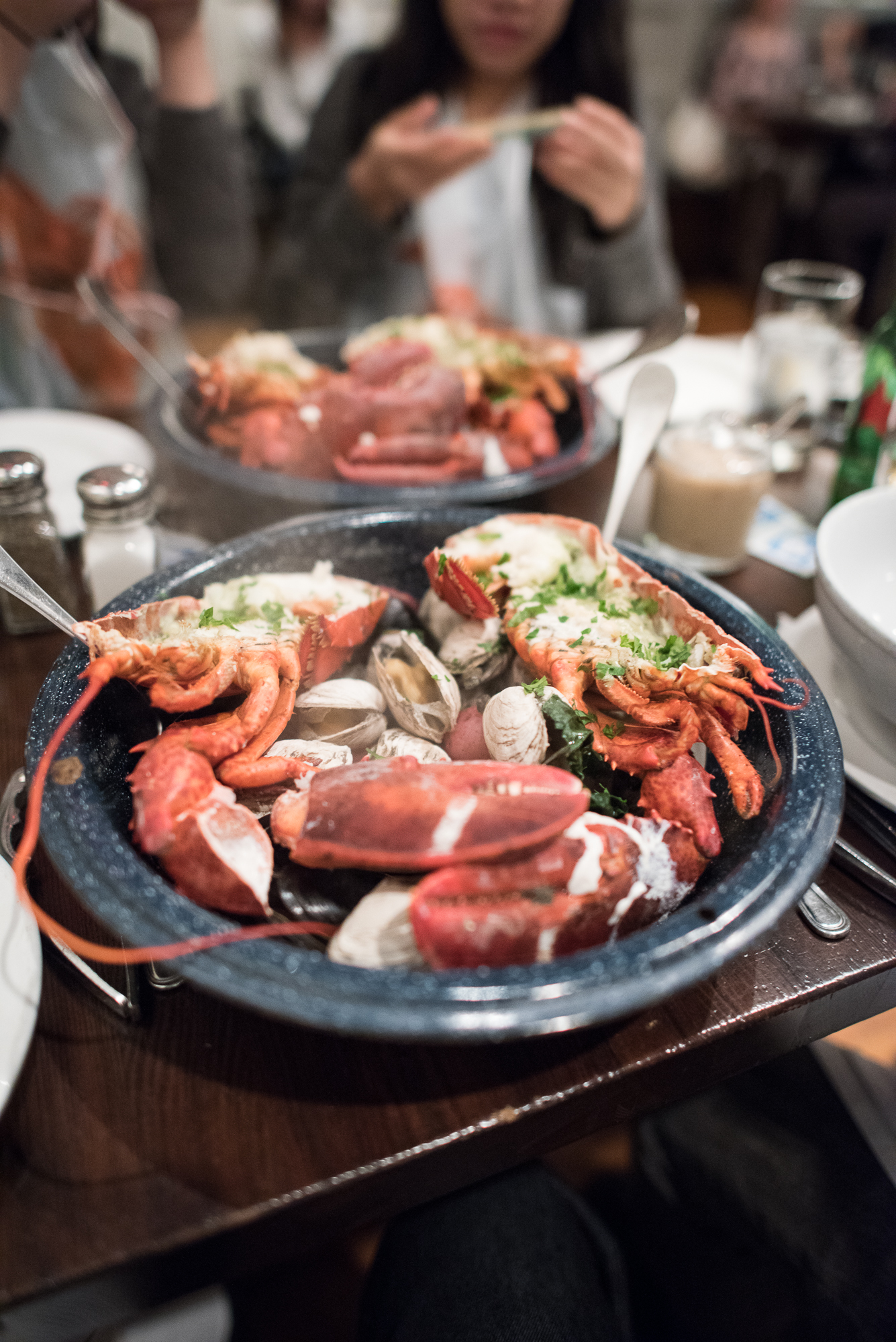 Clam bake from Philadelphia